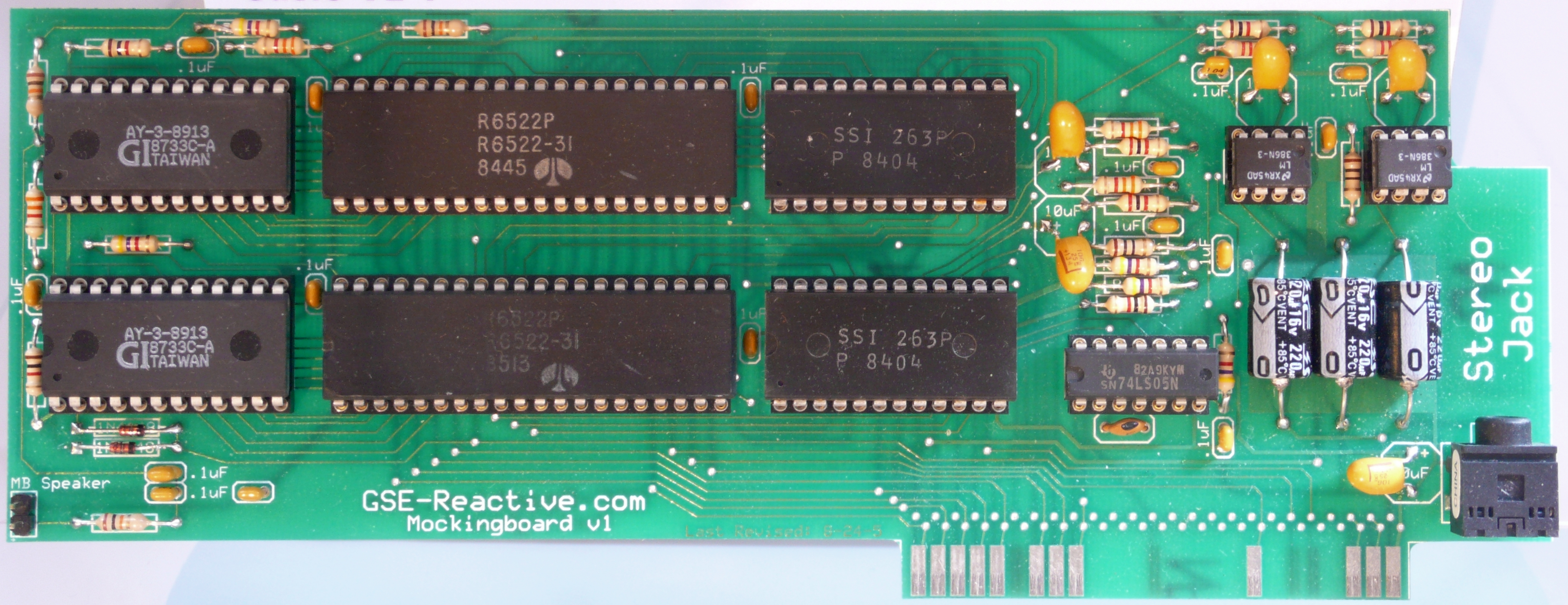 The Mockingboard A was the first sound card for the Apple II family of 1981. It could not use Apple´s built-in speakers but required external loudspeakers. The sound of six-voice two-channel synthesizer is produced by three independent sawtooth generators per chip. Besides, up to two speech chips could be added.